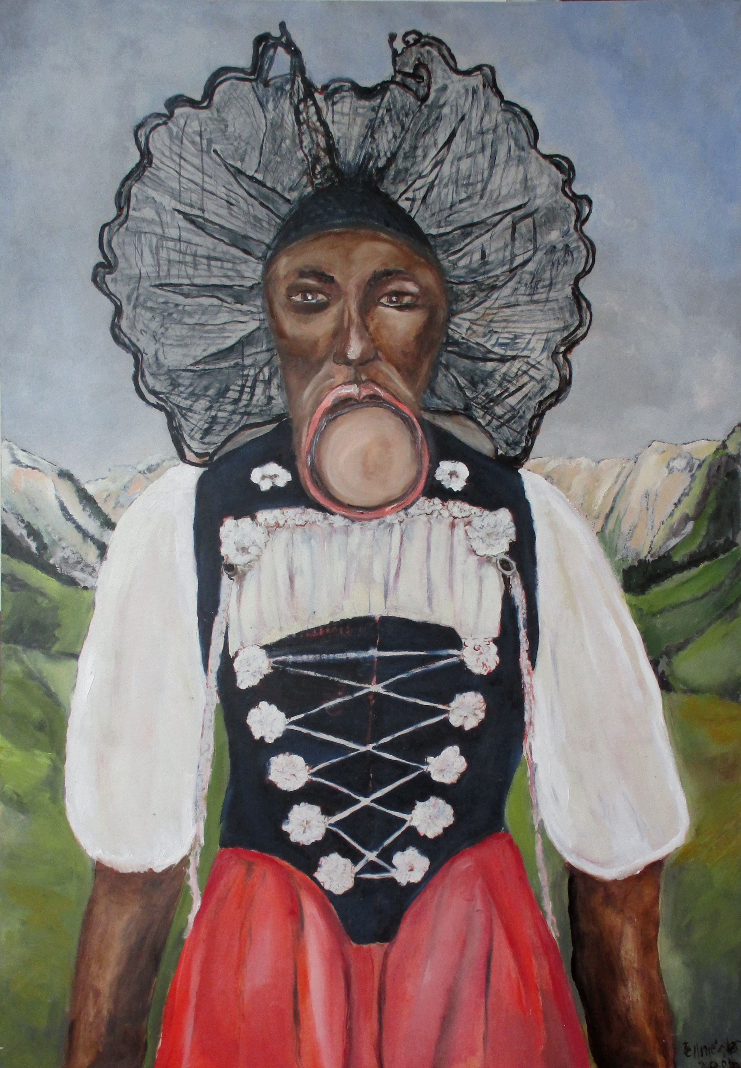 Schwarze Helvetia, Adam Tellmeister, 2004 (Öl auf Leinwand)